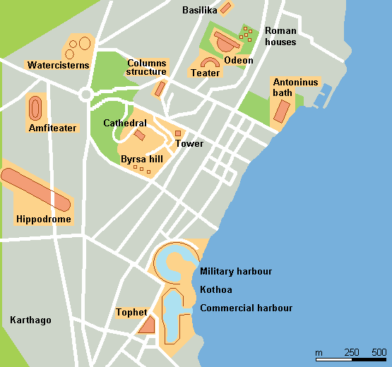 Map (rough) of modern Carthage showing remaining ruins from Punic and roman era, own work composed from various mapreferences